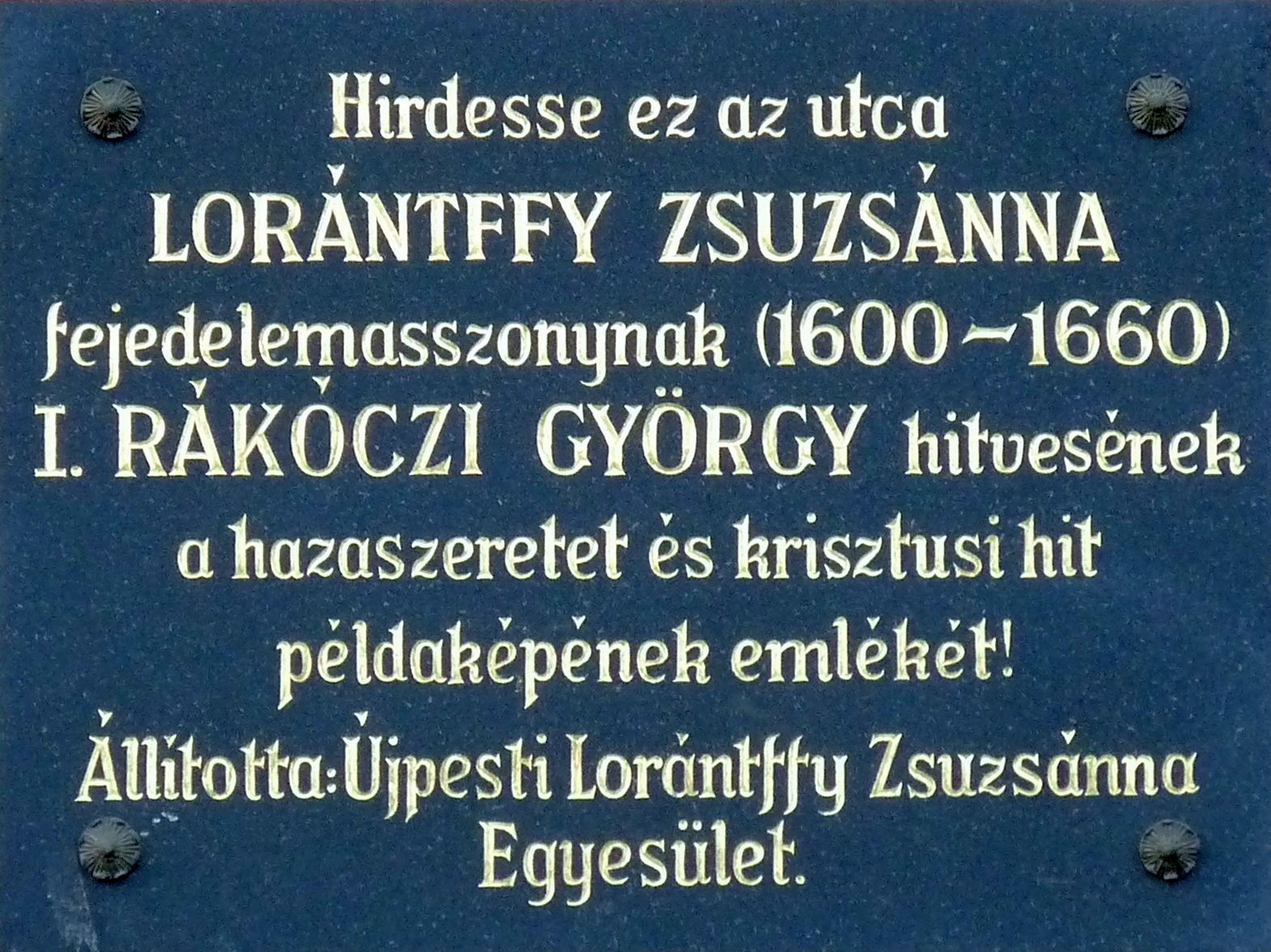 Commemorative plaque to Mrs. Zsuzsanna Lorántffy (1600-1660) wife of György Rákóczi I, Prince of Transylvania, affixed in the street bearing his name. (Budapest, District IV, Lorántffy Zsuzsanna Street Nr 2).